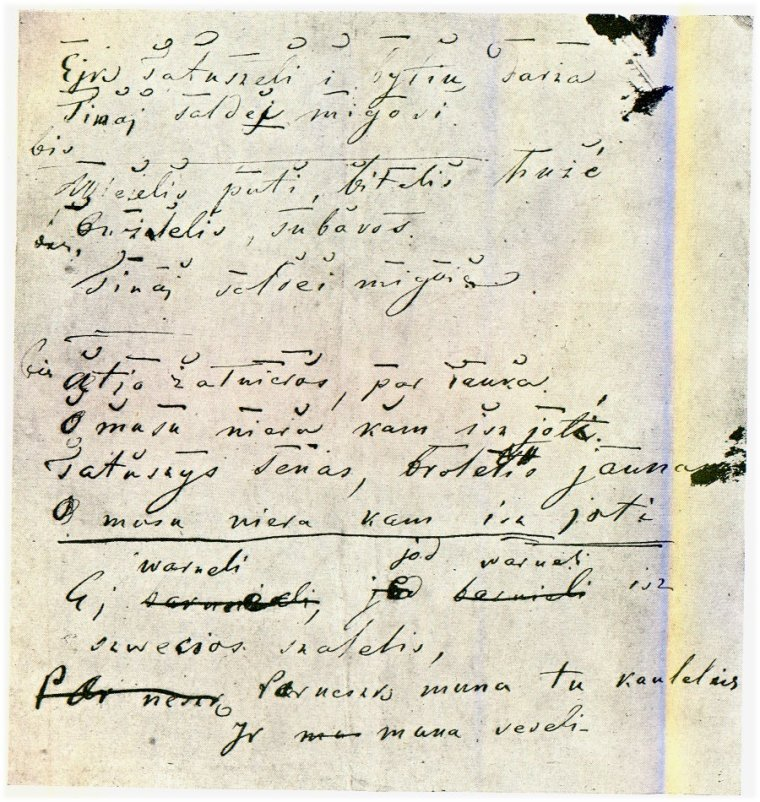 Lithuanian songs written by Adam Mickiewicz (Adomas Mickevičius) in Lithuanian language